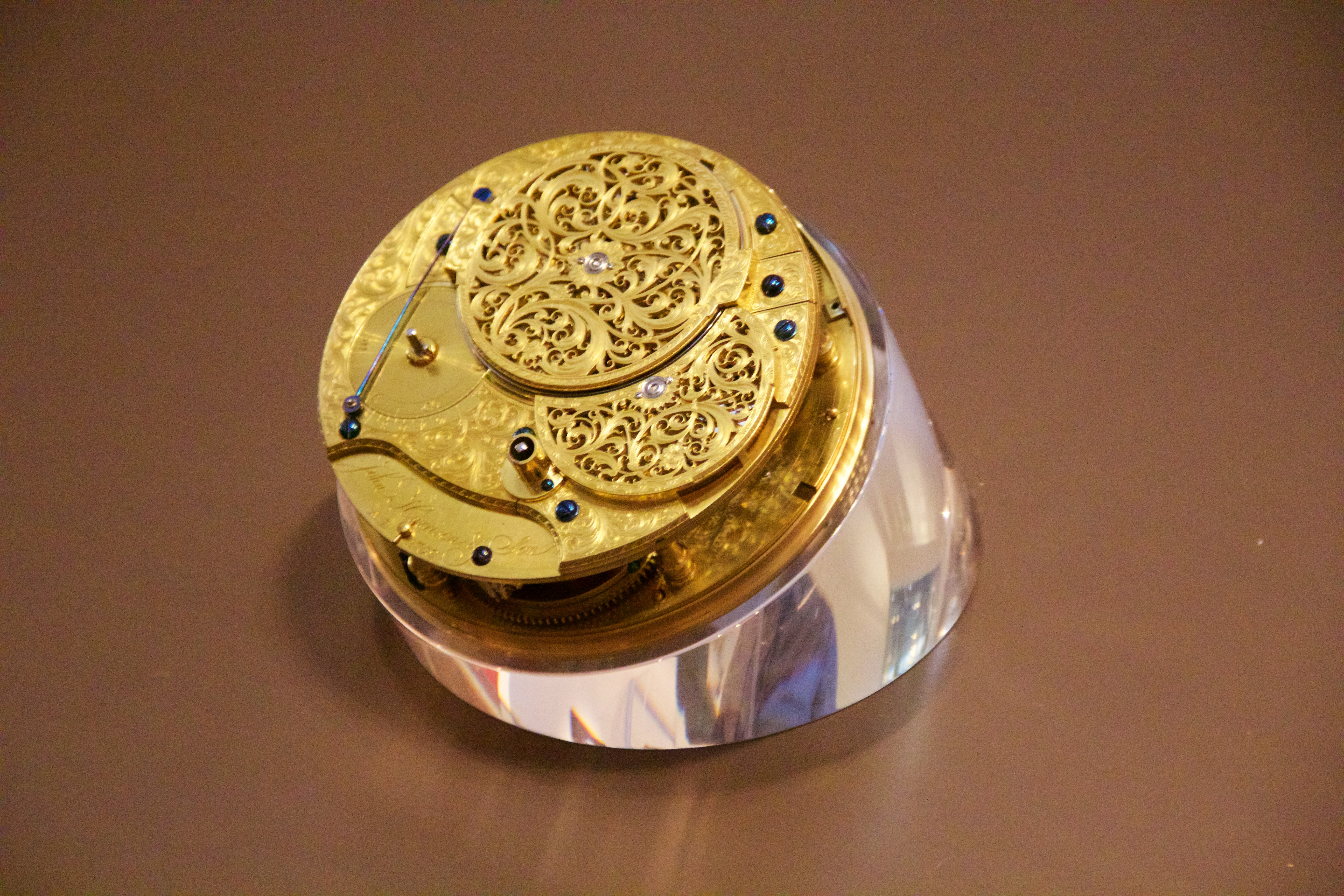 Harrison H4 clockwork, at the Royal Observatory, Greenwich, during the National Maritime Museum editathon.